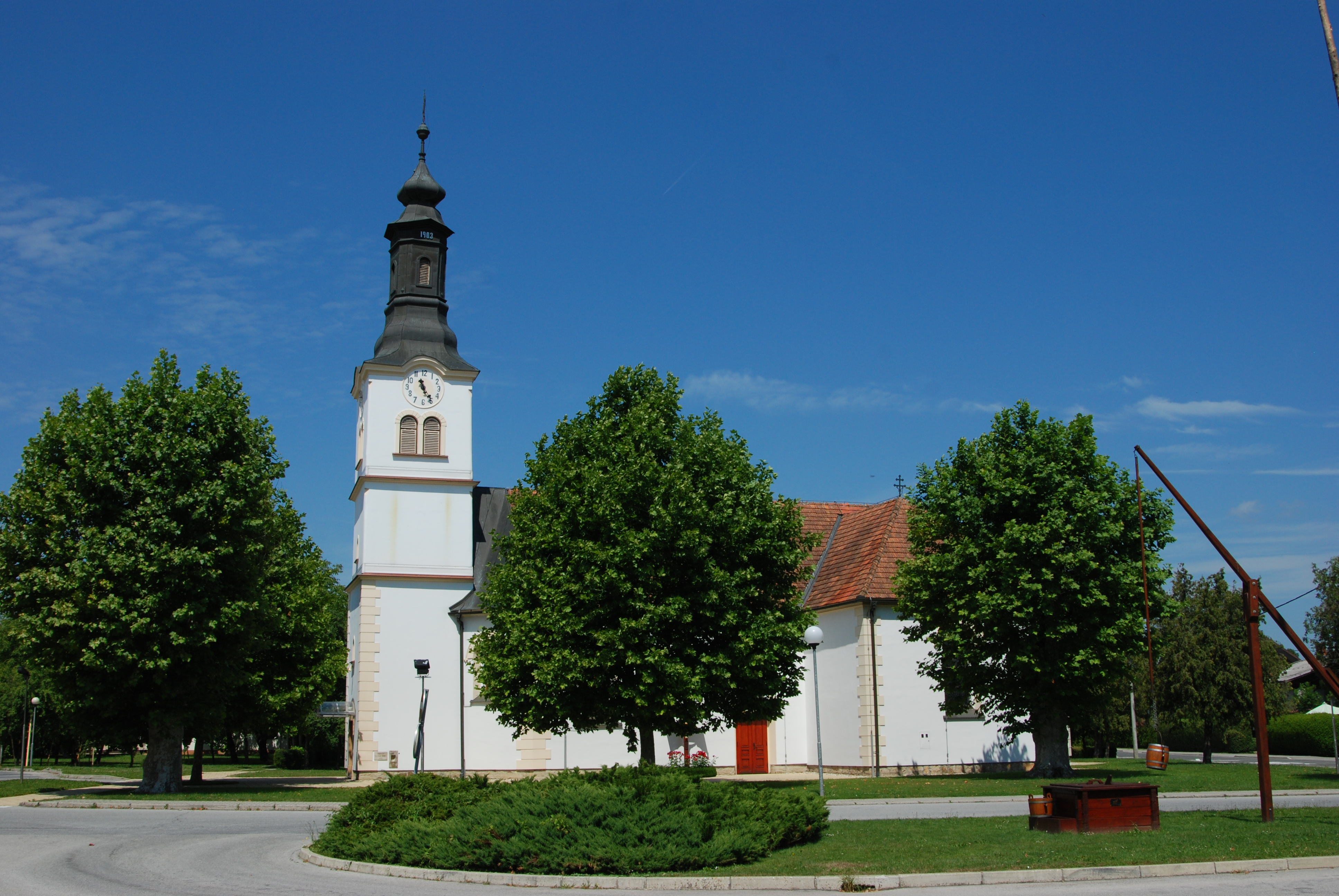 Church Cankova